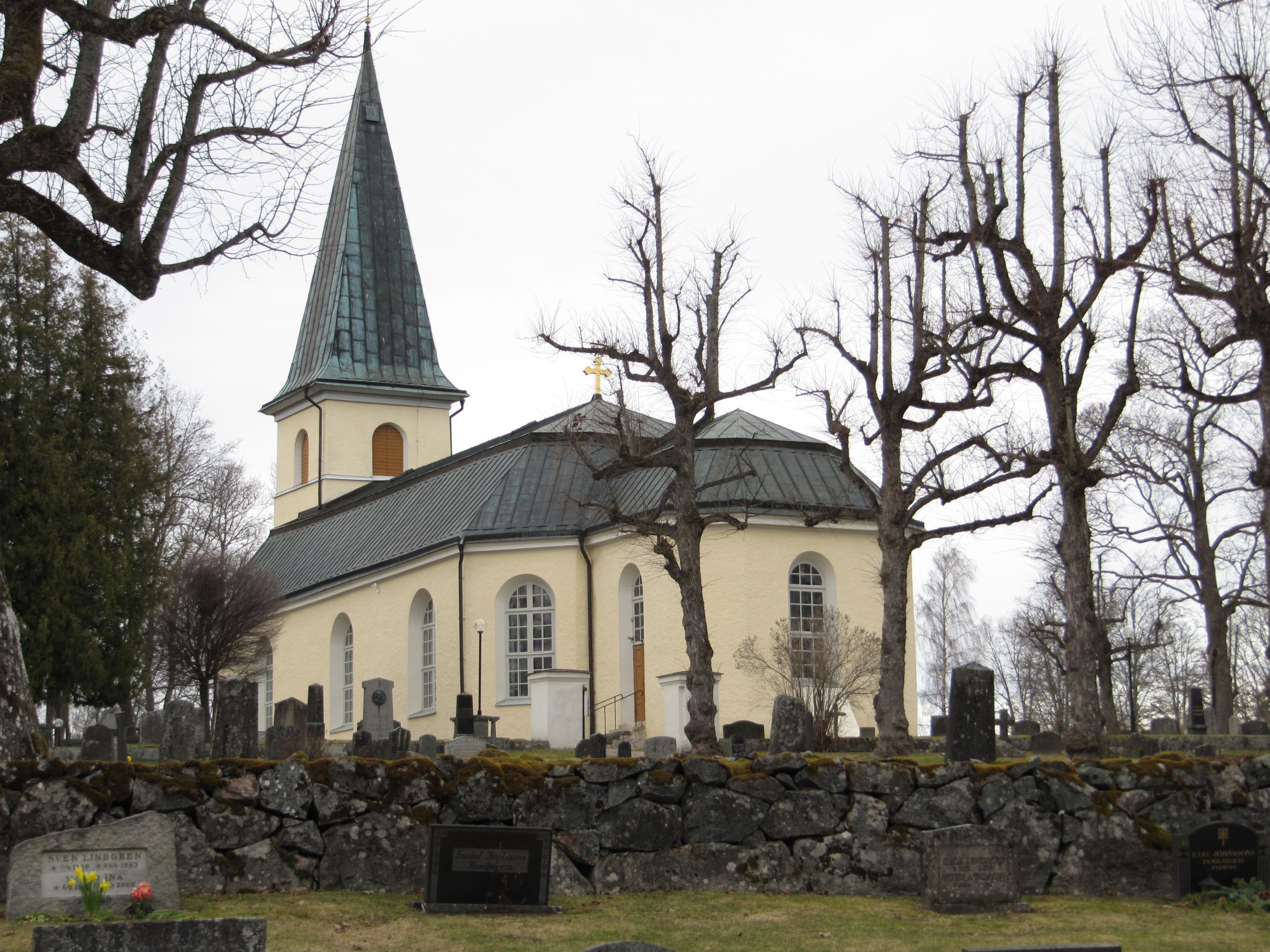 The church Axberg outside Örebro, Sweden